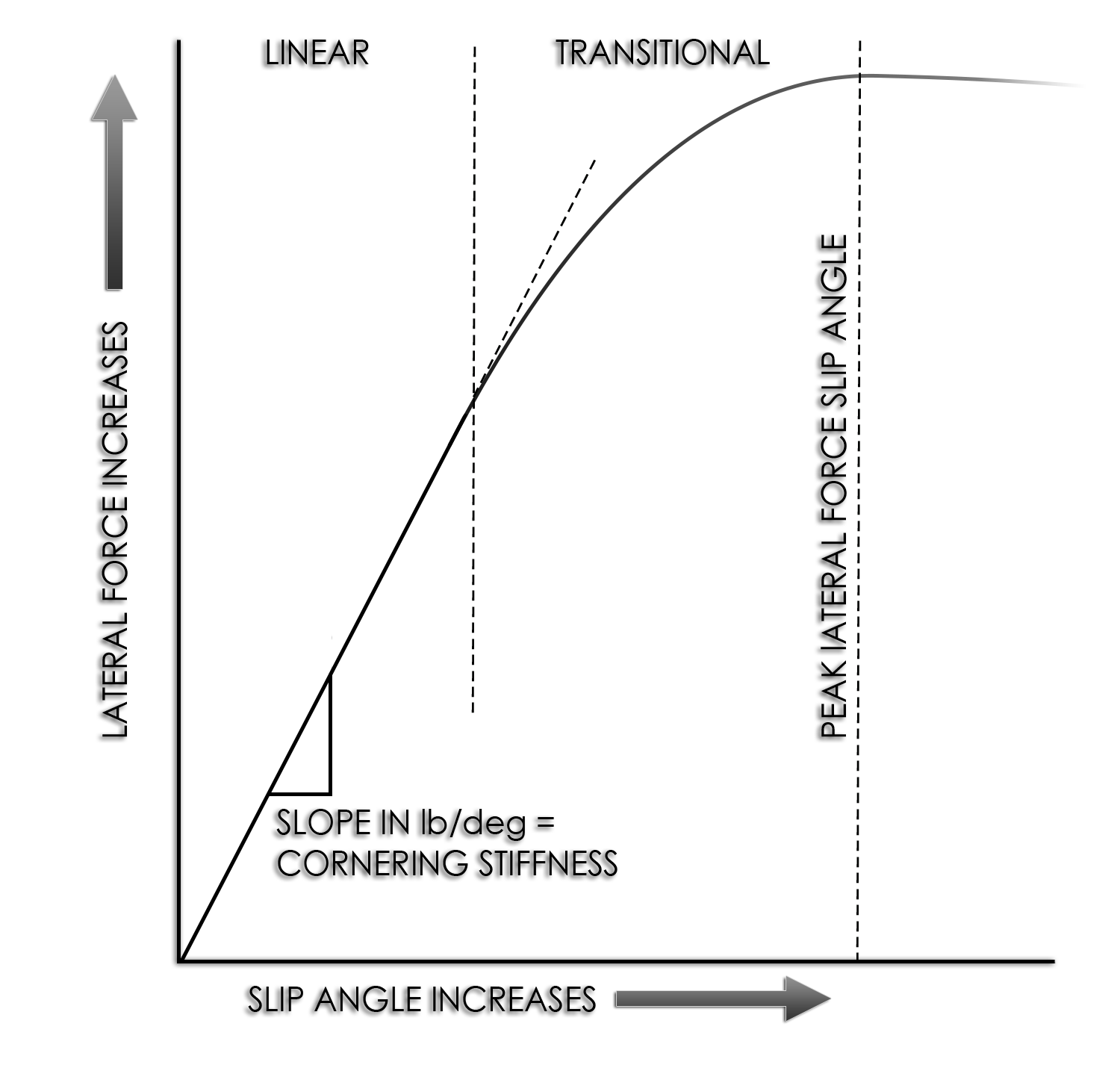 Linear and Transitional regions of tire slip angle